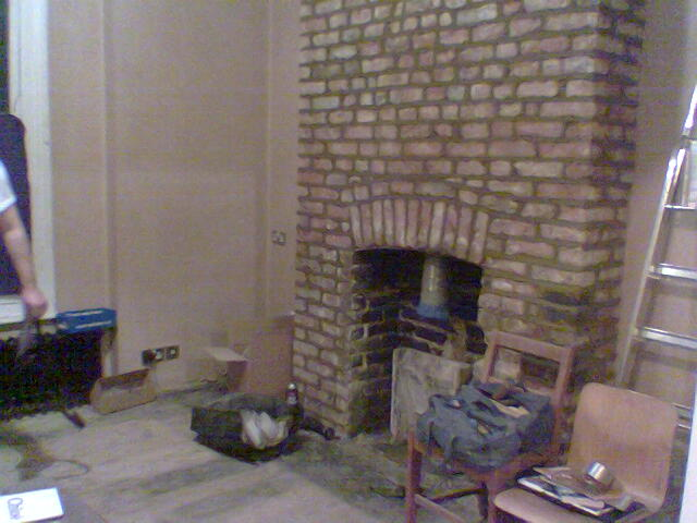 The chimney breast repointed.